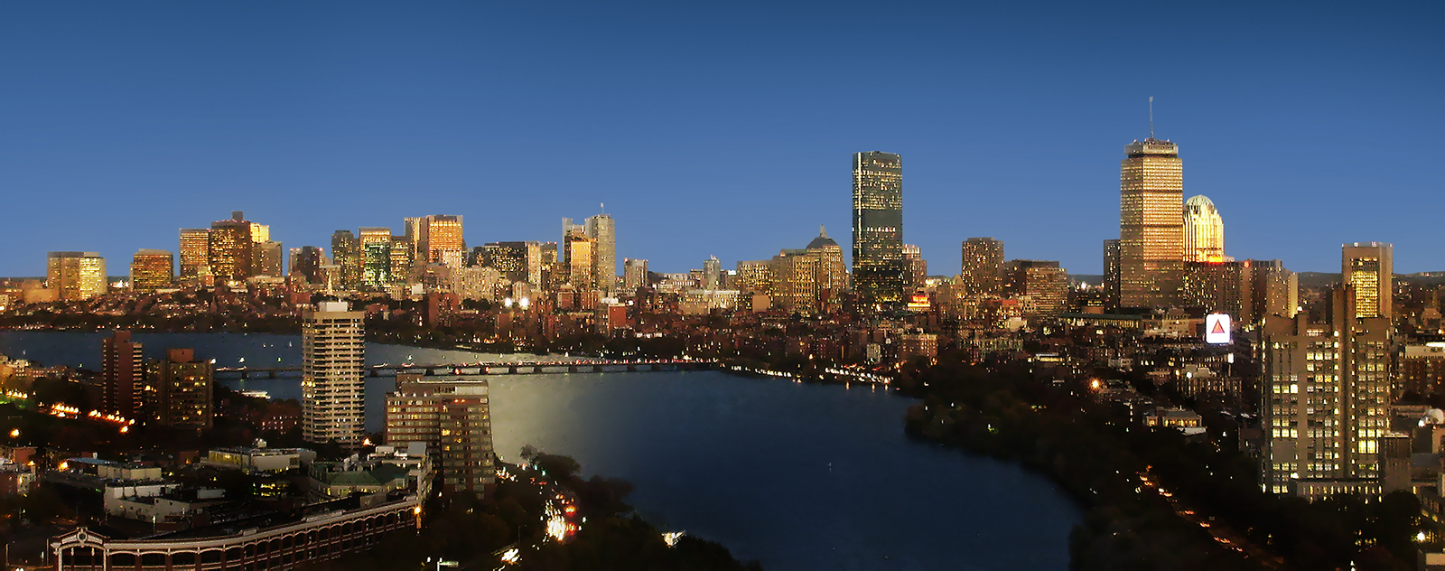 Boston as seen from the 26th floor of Student Village II at Boston University.